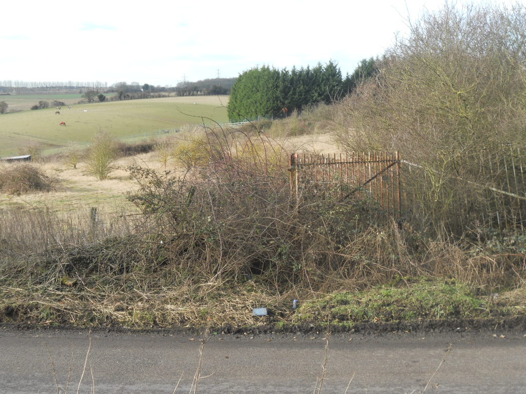 Lullingstone railway station entrance gates